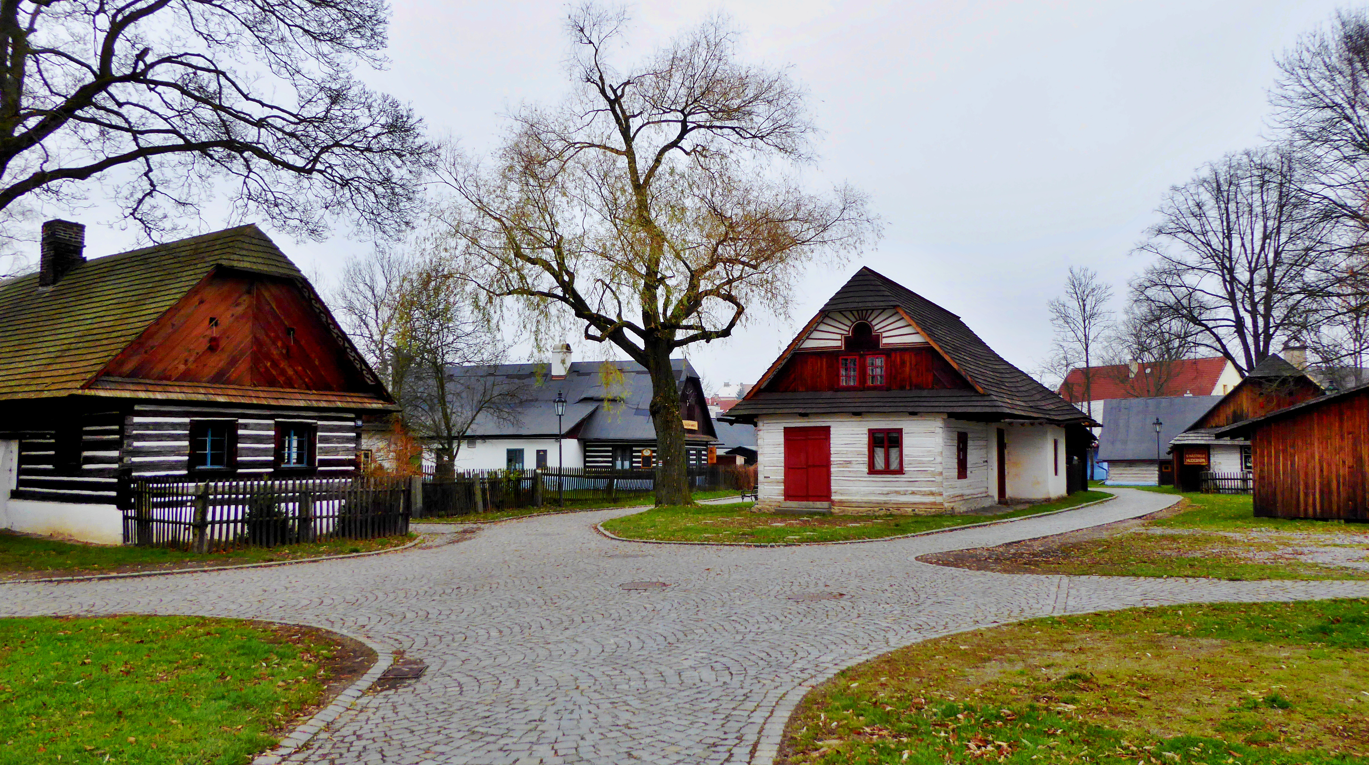 Betlém Monument Reserve is a collection of immovable cultural monuments of folk architecture in part of urban whole in central of town Hlinsko. Cultural monuments are managed by the National Monument Institute of Czech Republic, are a part of a museum in the nature entitled "Set of folk architecture Vysočina" based in town Hlinsko. Rural dwellings are used for cultural purposes and services. The monument reserve is open to the public all year round. In monument reservation there is also a tourist information center of town Hlinsko. The hiking trails of the Czech Tourists Club go through in the town Hlinsko also the monument reservation of folk architecture. Visitors are on the place informed by a museum expert guide. Photo-location: Czechia, Pardubice Region, town Hlinsko, Betlém Monument Reservation, in the photo the folk architecture (azimuth 340°), part of the museum the Set of folk buildings Vysočina.